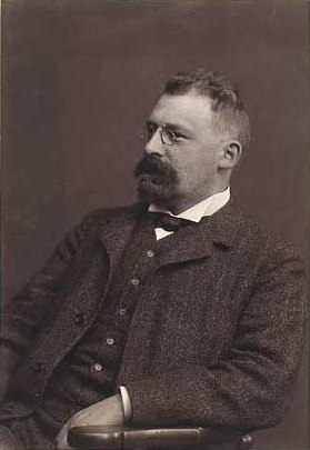 Lauritz Justnielsen (1867-1923), Danish editor